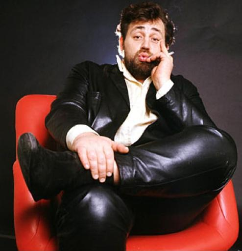 Press photo of Cornelis Vreeswijk in 1967. The chair is by the Finnish designer Yrjö Kukkapuro.